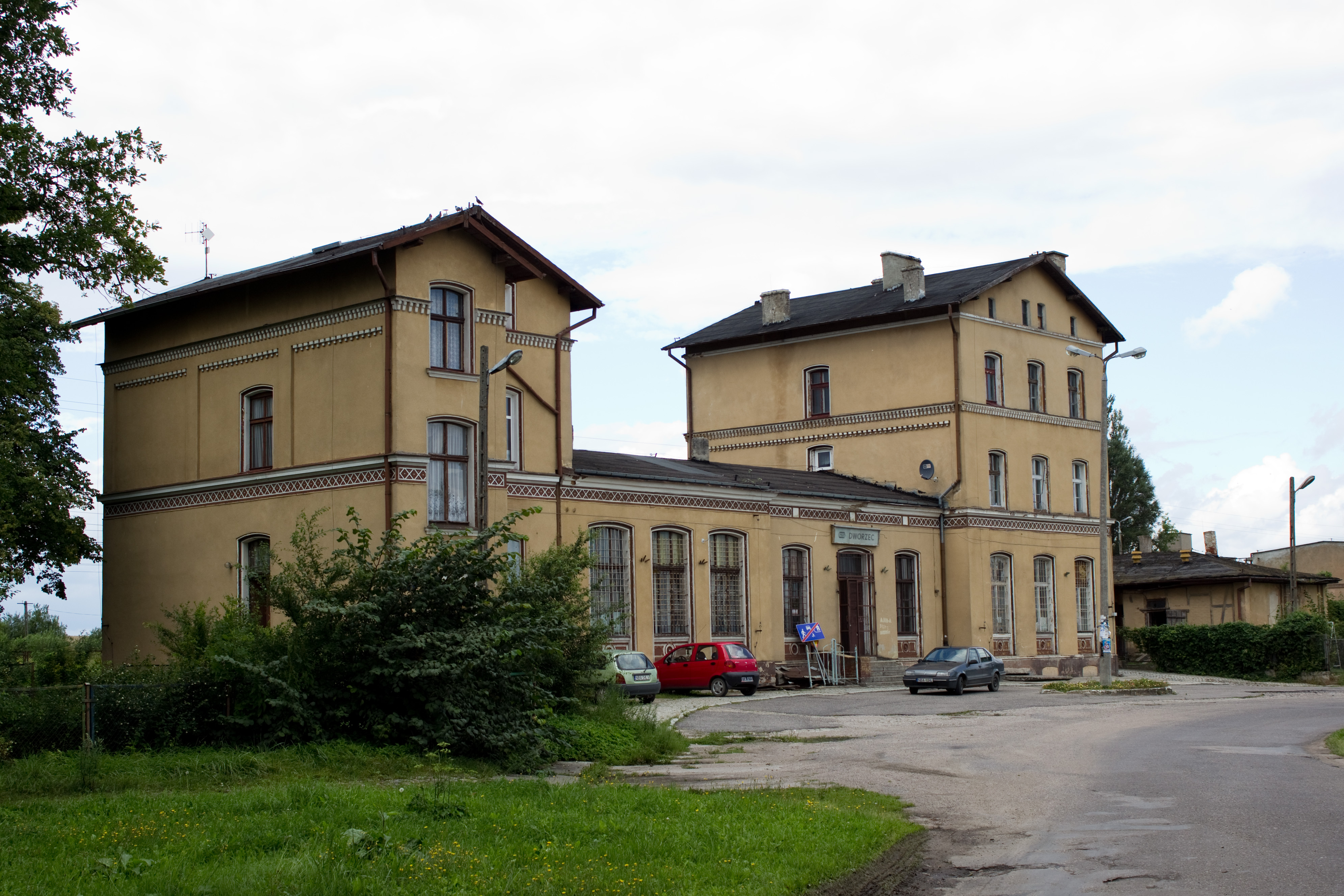 Train station, Sątopy, gmina Bisztynek, powiat bartoszycki, Warmian-Masurian Voivodeship